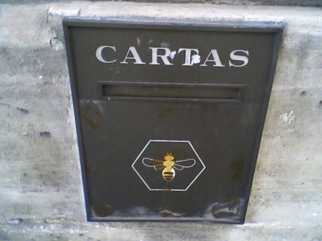 Logo of "Rumasa" in a building in Alcoi.